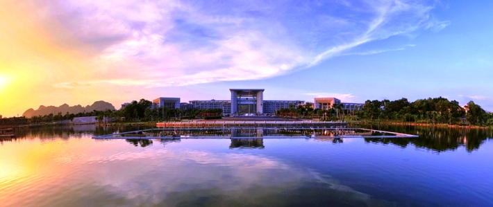 Office building of the Chongzuo government